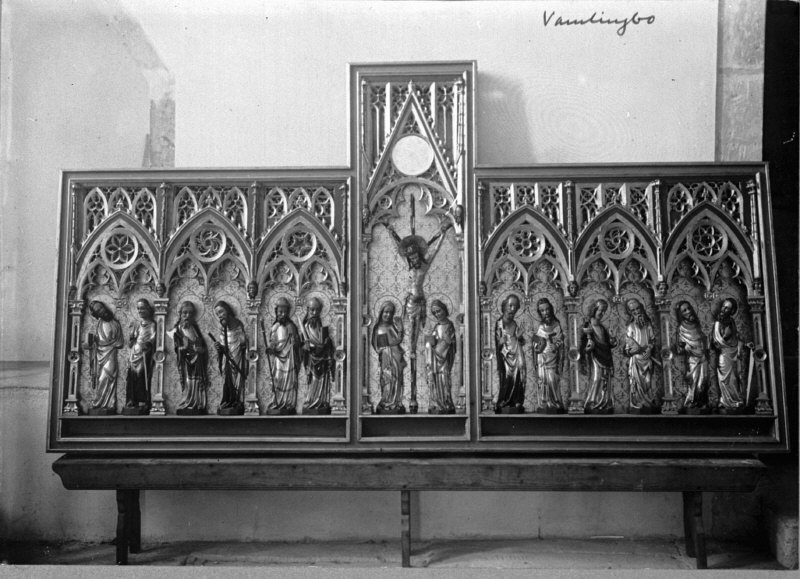 Altarpiece